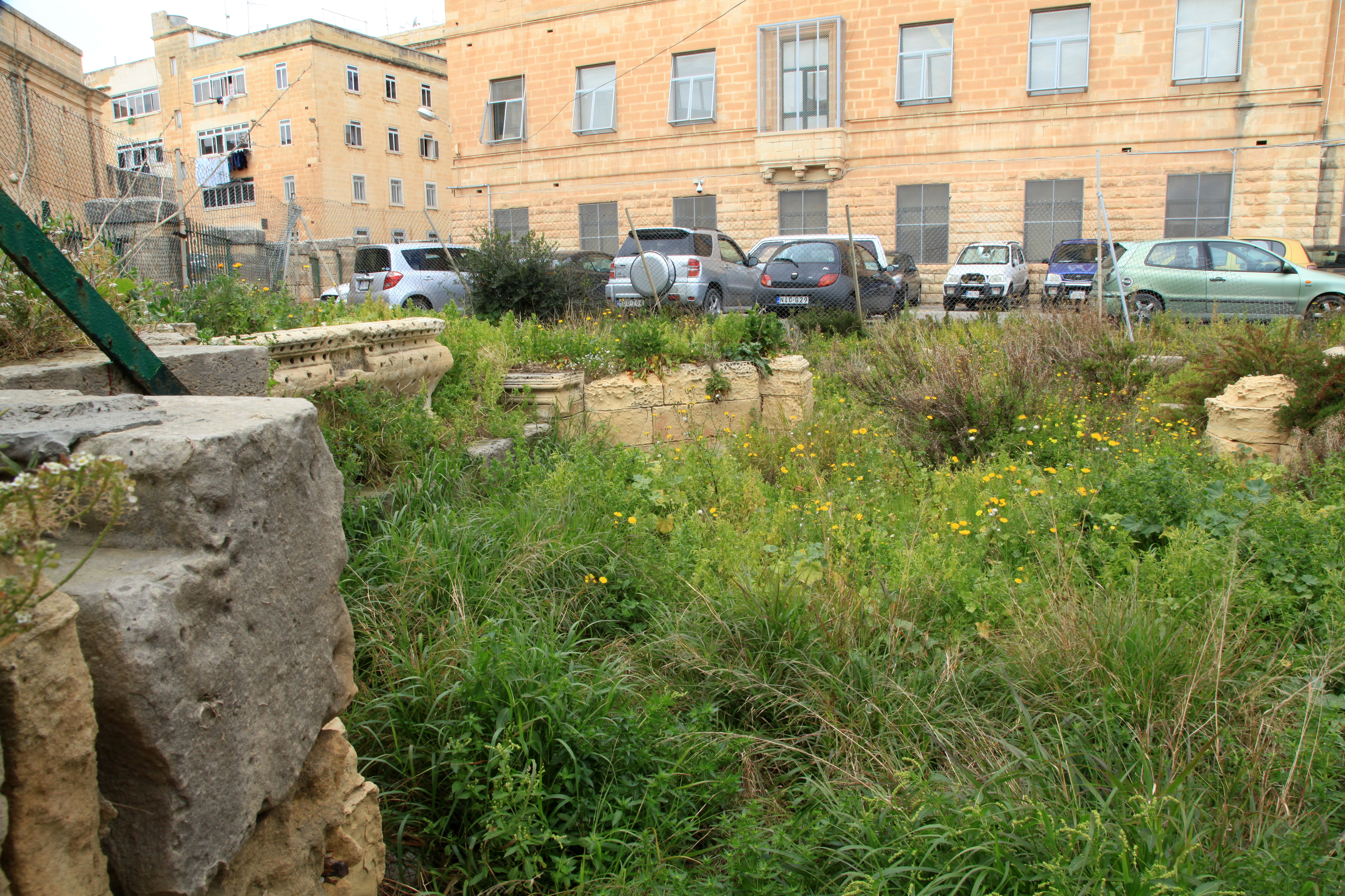 Chapel of Bones, Triq it-Tramuntana in Valletta, Malta